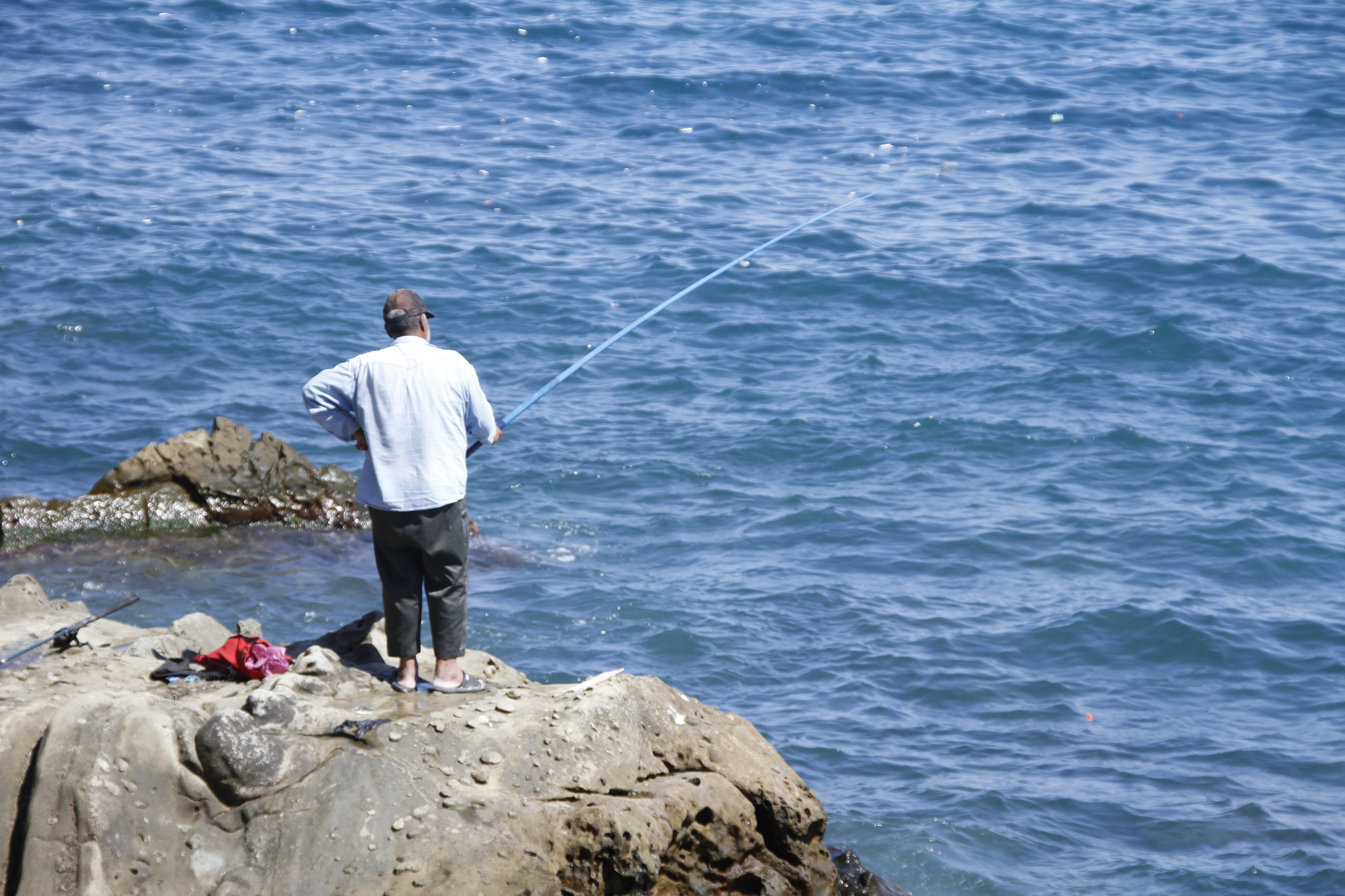 a shot for a fisher man in the city Dellys in Boumerdes -Algeria This is an image of "African people at work" from Algeria